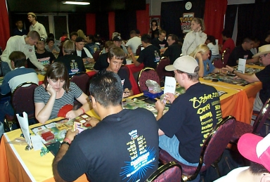 Super Trainer Showdown, July 2000